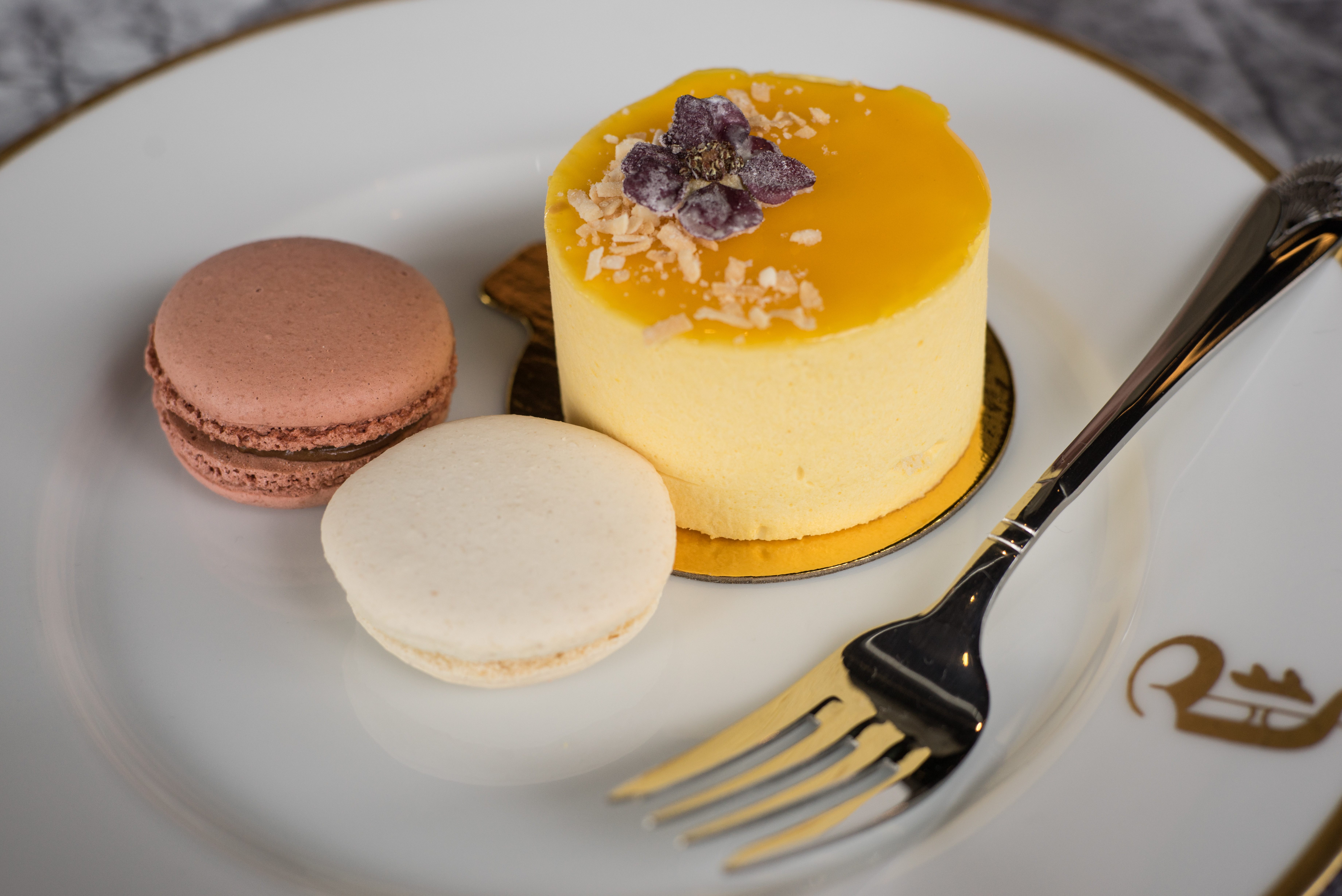 macarons & mango genoise with mango mousse